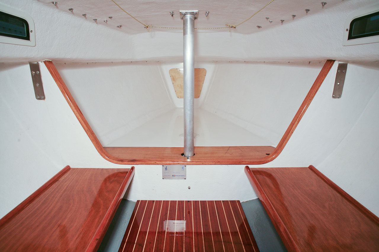 J/22 sailboat interior